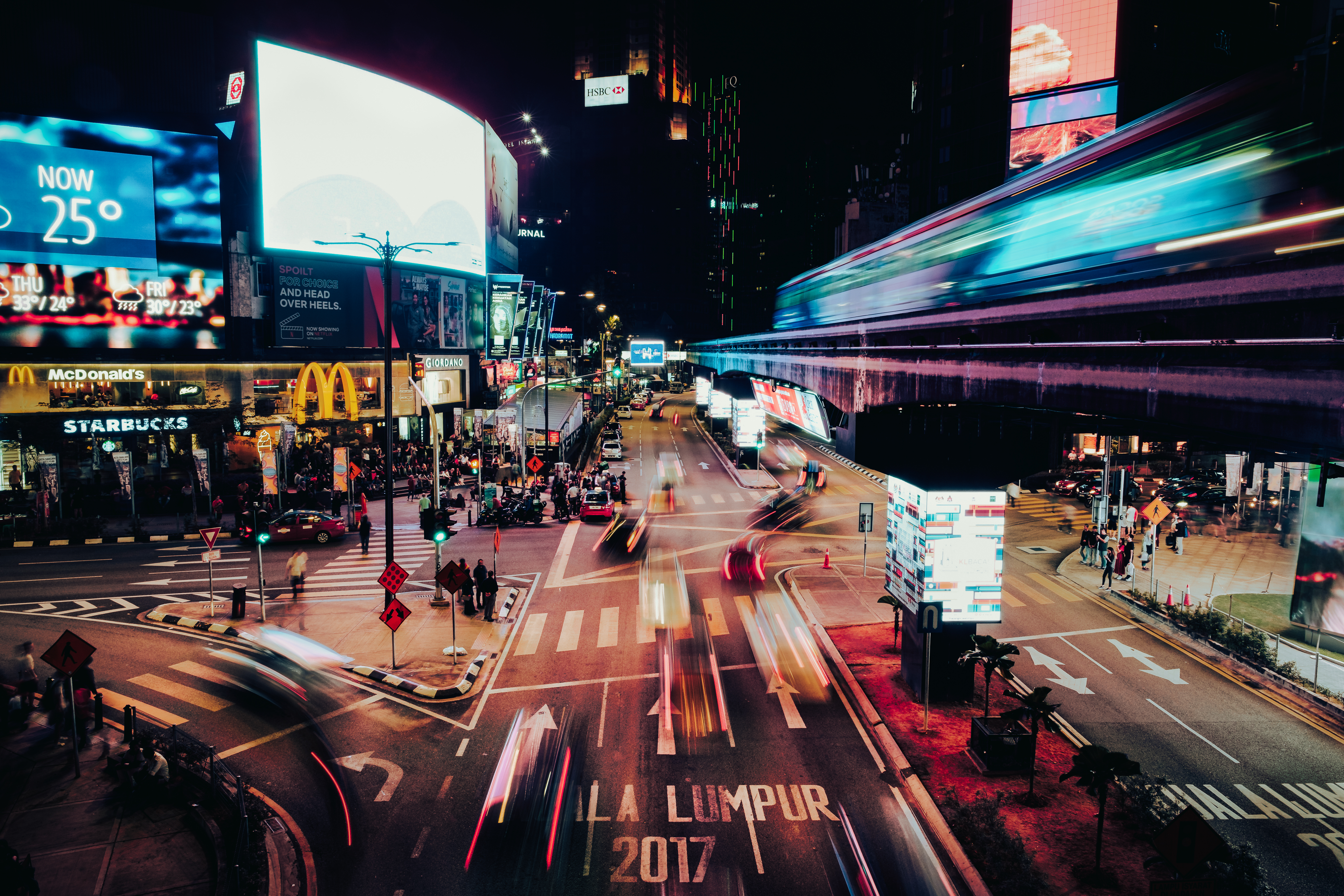 The bright lights of Bukit Bintang.